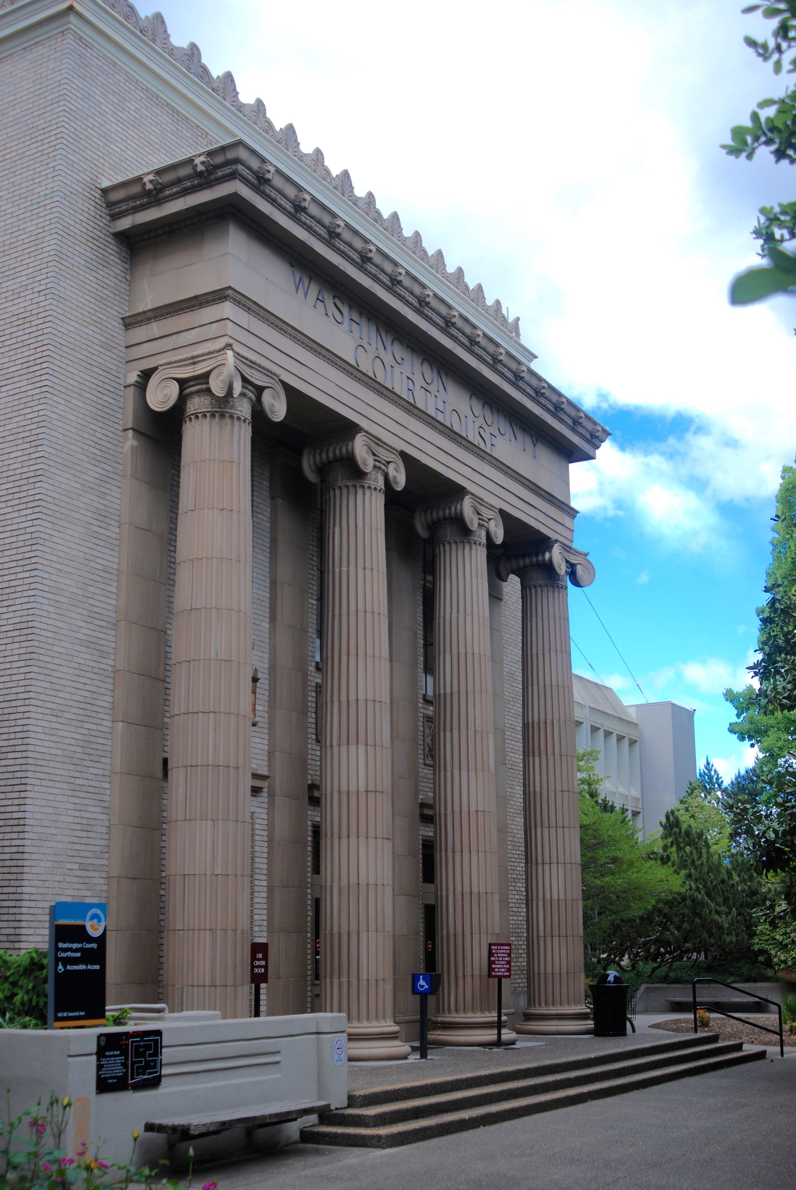 The east façade and main entrance of the Washington County Courthouse, in Hillsboro, Oregon, built in 1928–30.